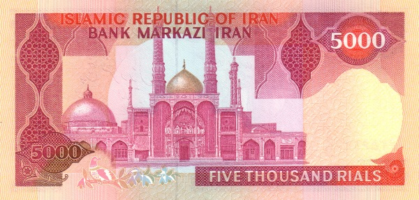 5000 IRR banknote (1981 issue)